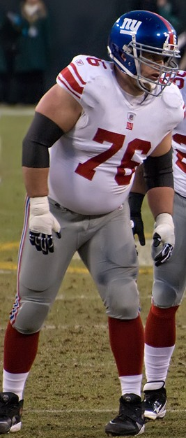 New York Giants guard, Chris Snee, playing in the 2011-12 NFC Championship game.